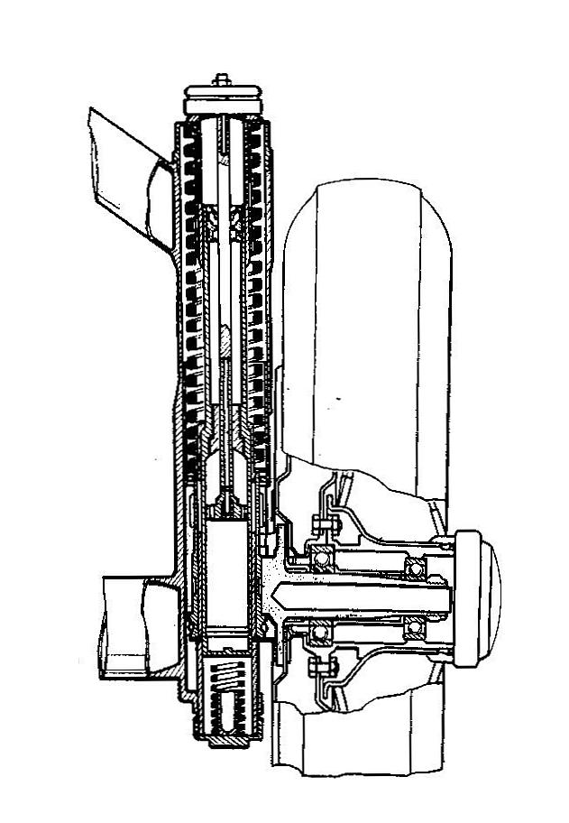 Sliding pillar suspension, early Lancia cars Independent front suspension by vertical movement along a sliding pillar.